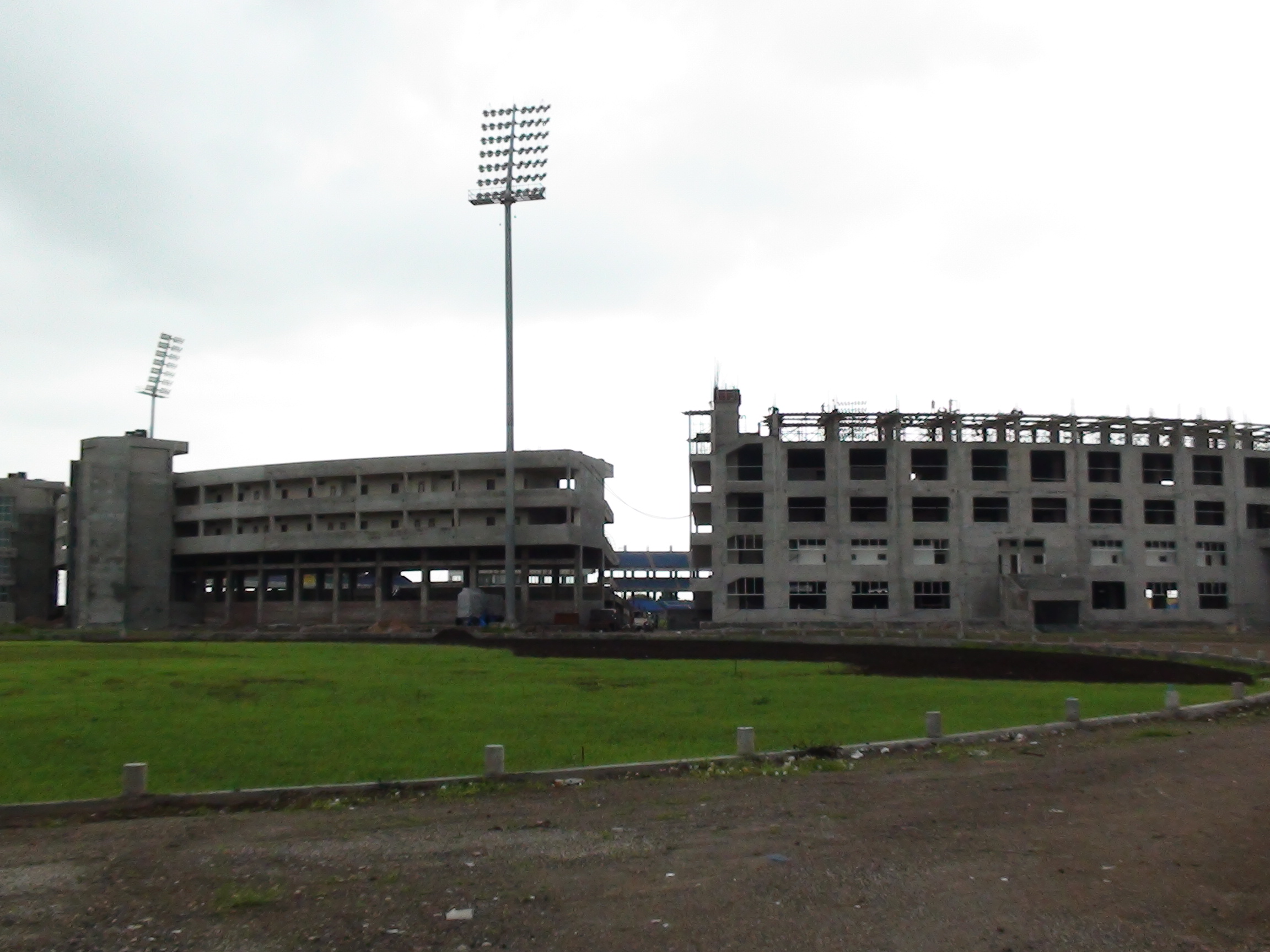 The new Rajkot Cricket Stadium, AKA Saurashtra Cricket Association Ground.